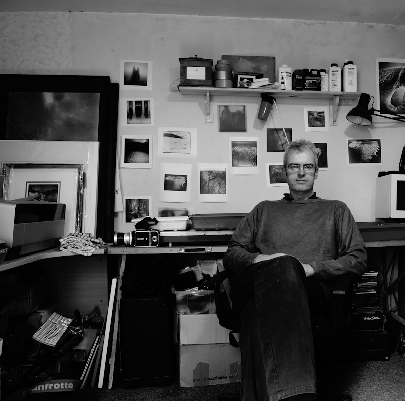 Mike Jackson, abstract and landscape photographer in his studio in Wales.